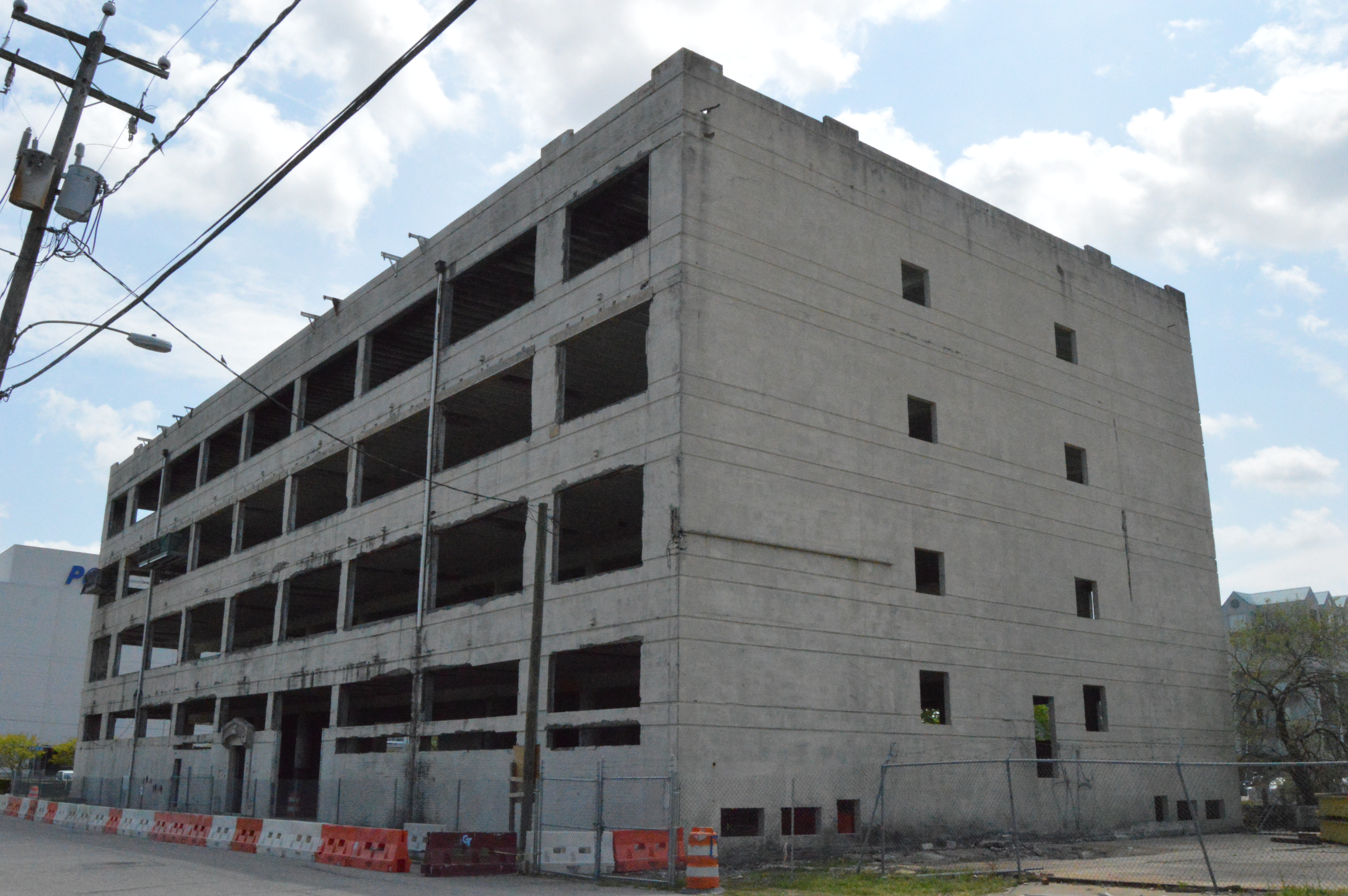 Front and western side of the Security Storage and Safe Deposit Company Warehouse, located at 517-523 Front Street in Norfolk, Virginia, United States. Built in 1916, it is listed on the National Register of Historic Places.